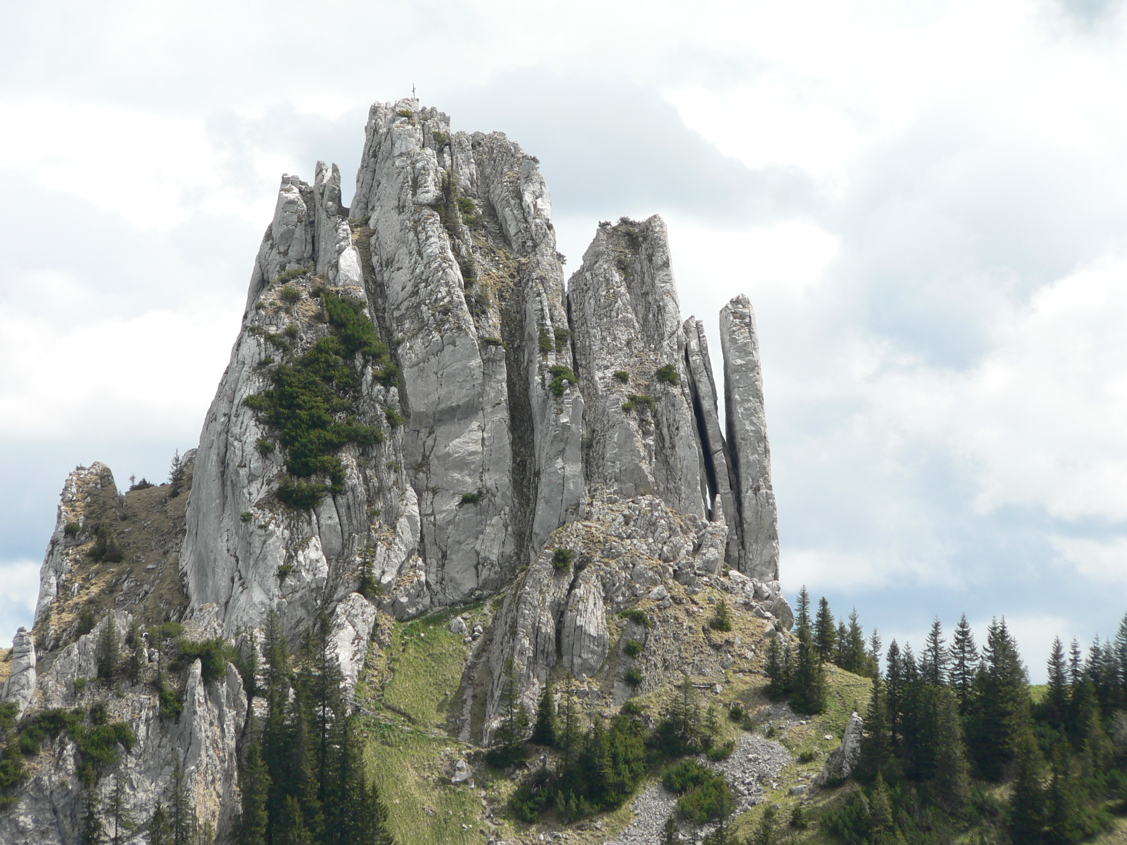 Plankenstein, climbing area near Tegernsee (Bavaria)